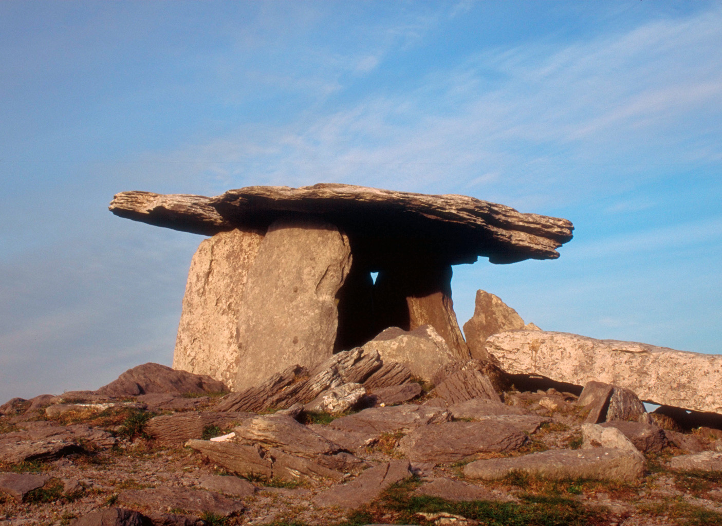 Poulnabrone Dolmen, The Burren, County Clare, Ireland. Picture shot on Fuji Velvia film using a Minolta SLR by Dlloyd.